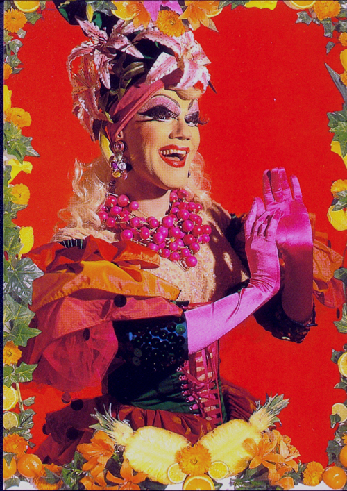 Agnetha Immergeil